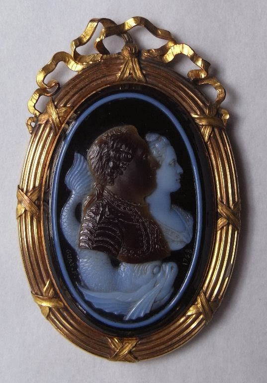 The Dauphin, son of Louis XV and his wife Marie Josephe de Saxe, parents of the future Louis XVI